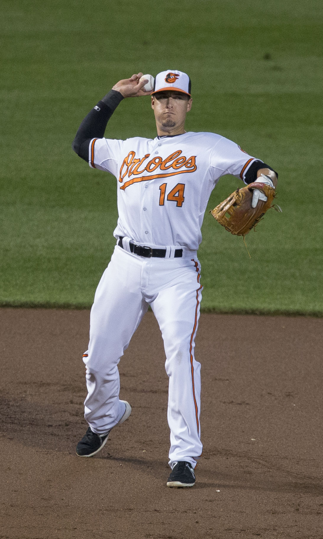 Kelly Johnson